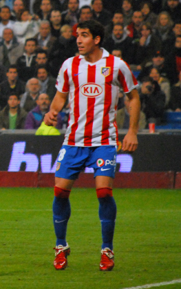 Spanish football player Raúl García Escudero while playing for Club Atlético de Madrid